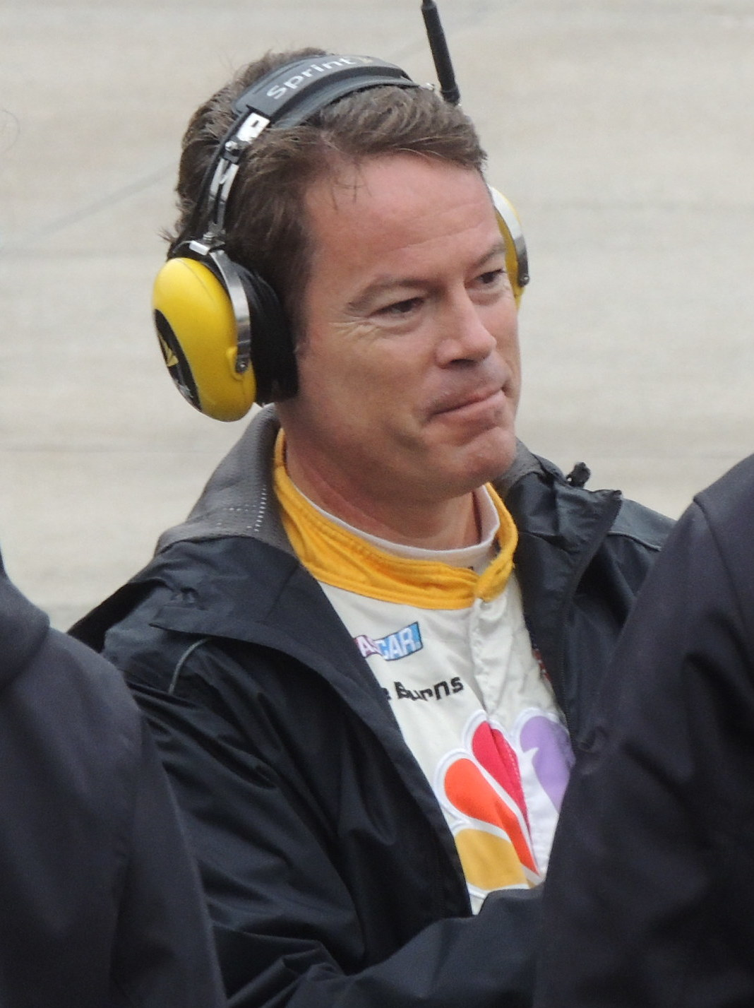 Dave Burns at Dover International Speedway in 2015